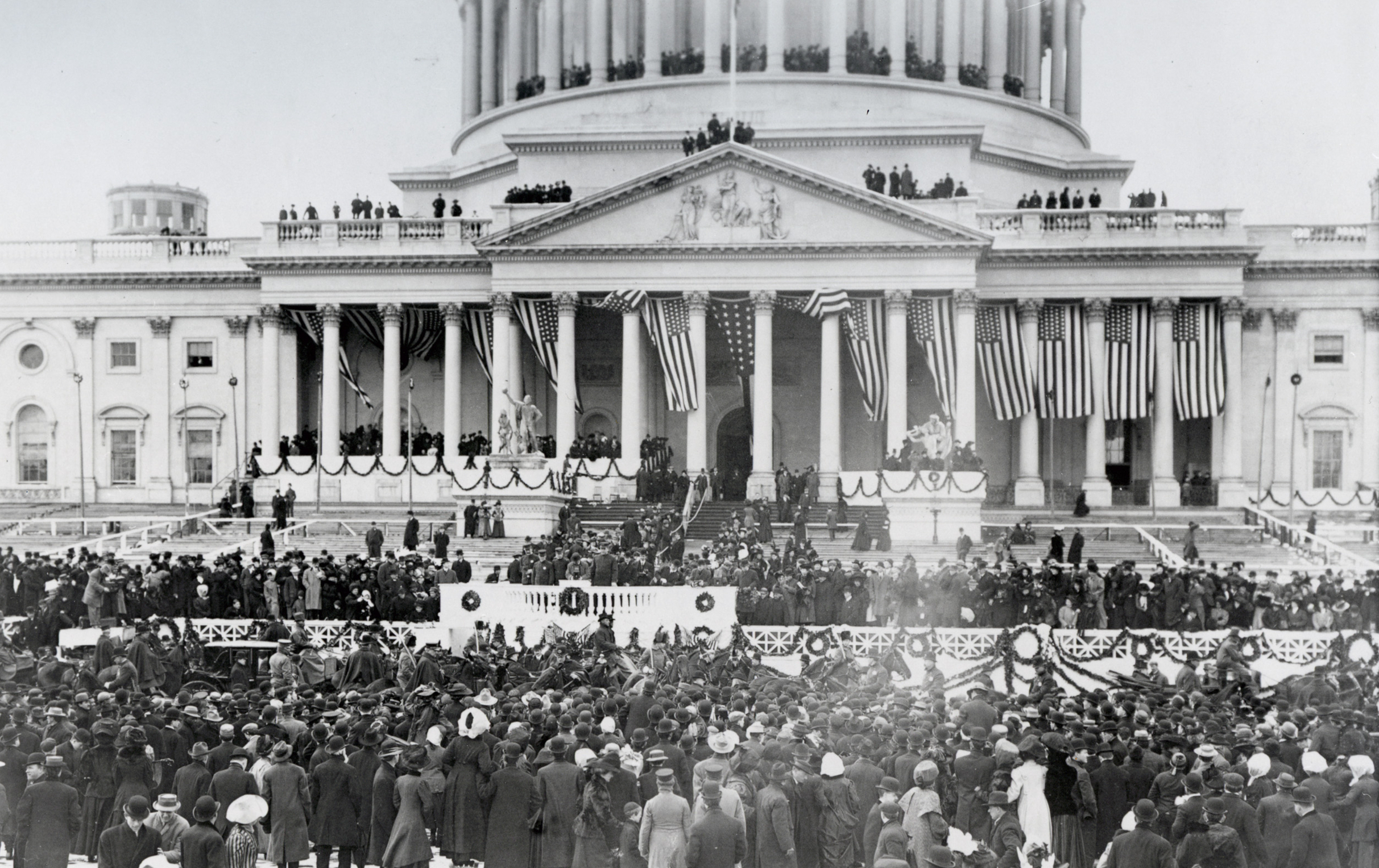 Inauguration of William H. Taft on the Capitol's East Front in March 1909.